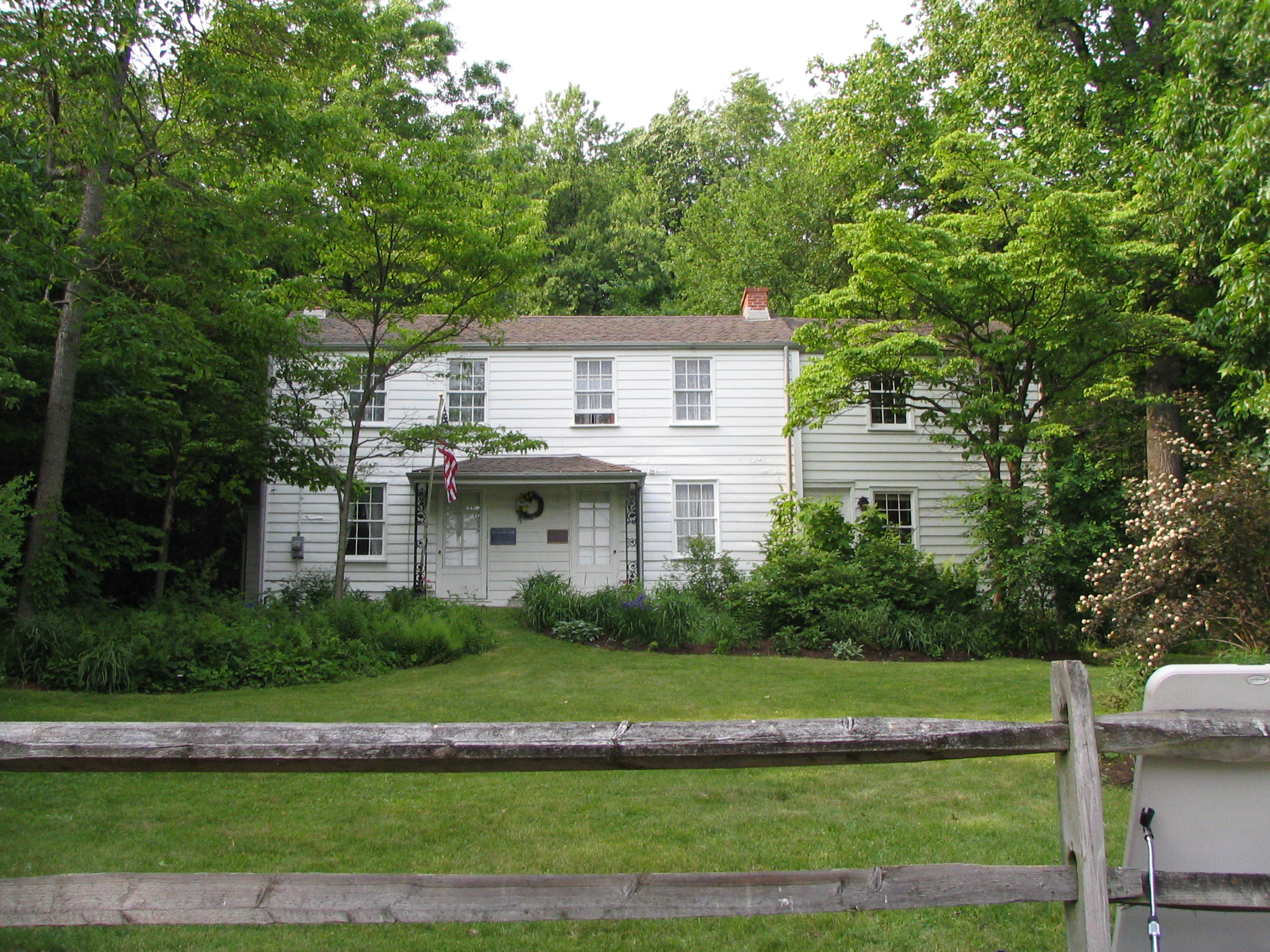 Photo taken at Rachel Carson's 100th Birthday celebration at Rachel Carson Homestead in Springdale, PA